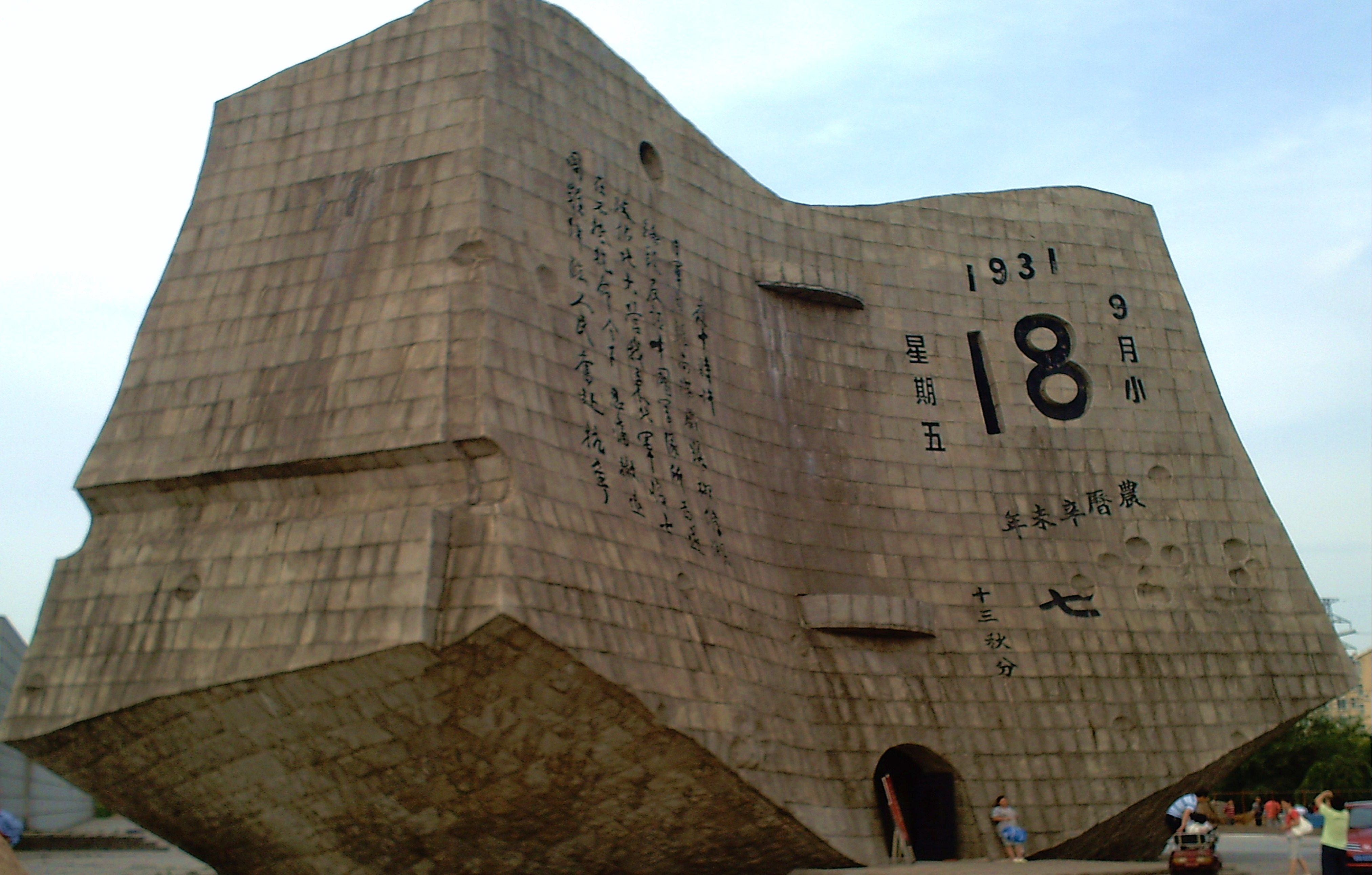 Shenyang Museum 1931-09-18